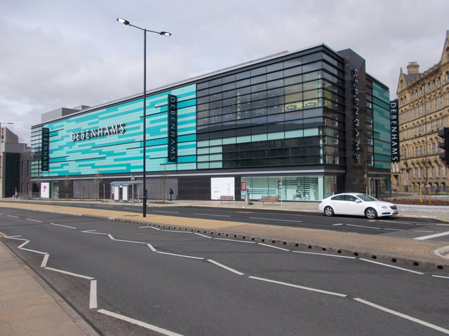 Debenhams - viewed from Leeds Road